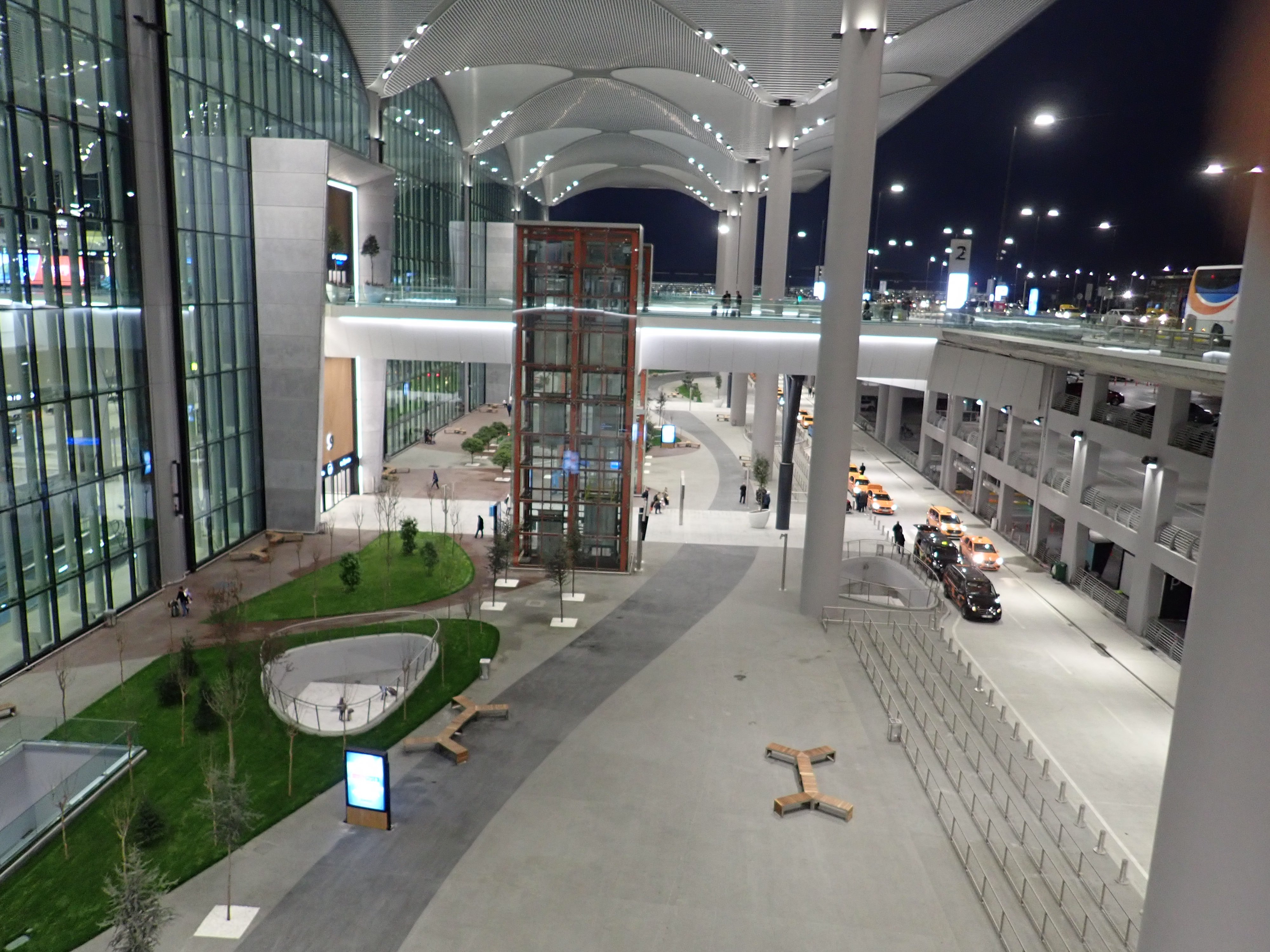 Istanbul Airport (ISL) Entrance early morning